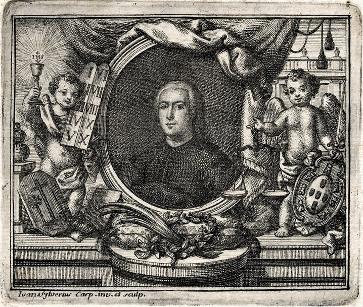 Joseph of Braganza (1720-1801), Infante of Portugal and Inquisitor-General